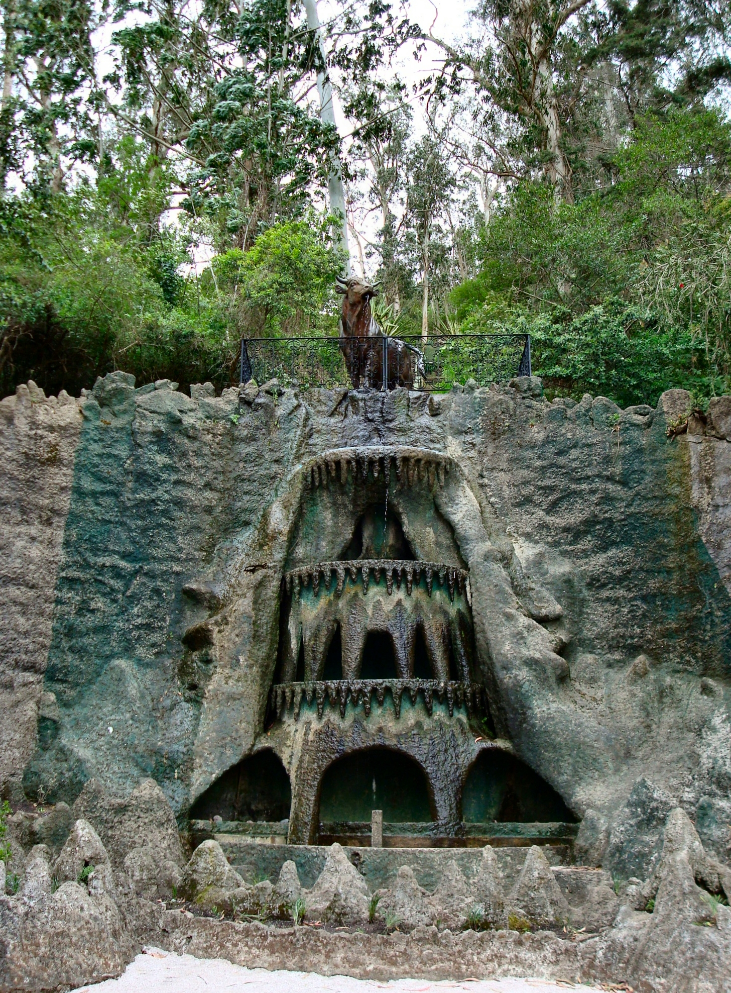 Bronze statue of The Bull and the fountain, on Cerro del Toro, near Piriápolis, Maldonado Department, Uruguay.